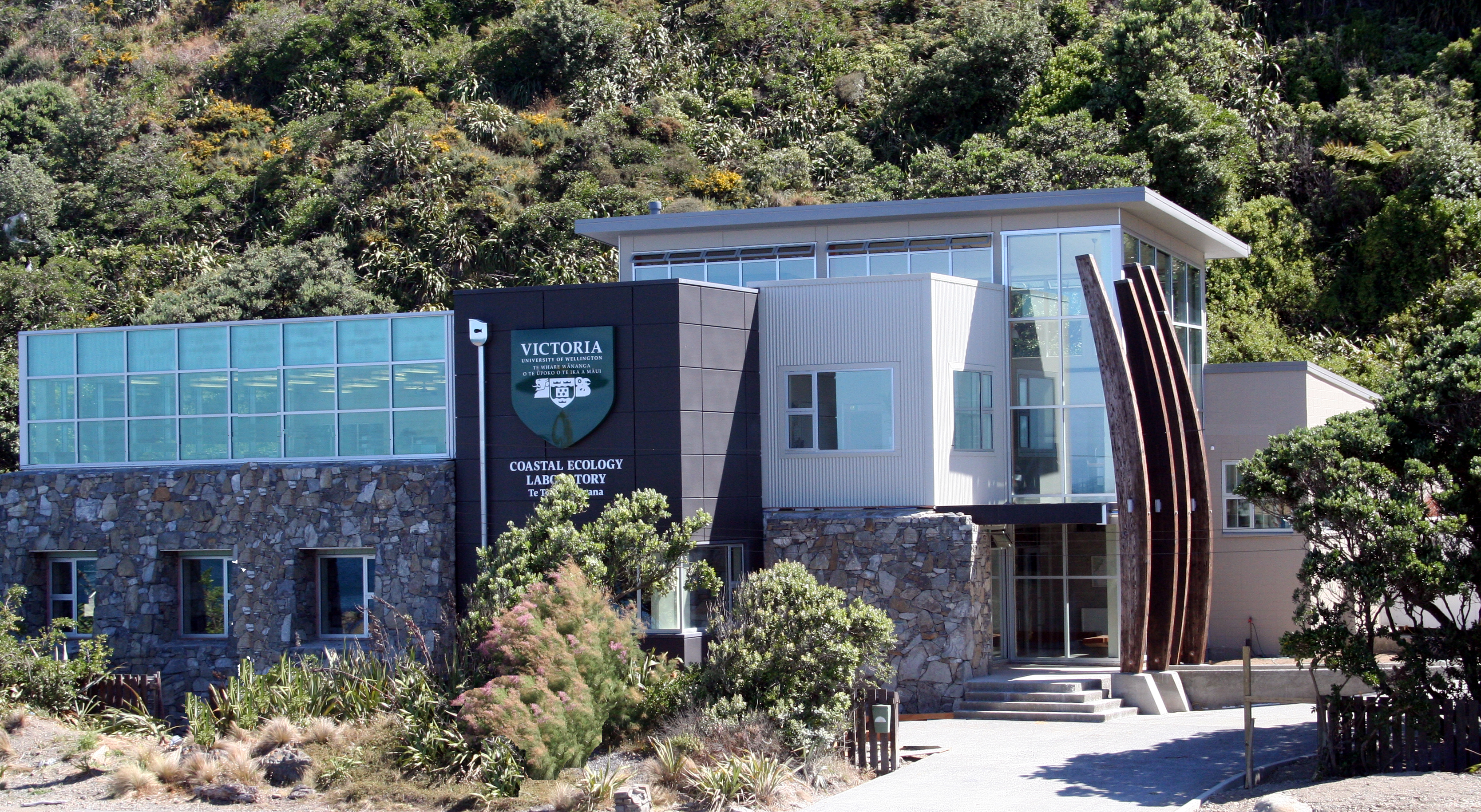 Photograph of the Victoria University Coastal Ecology Laboratory (VUCEL), supporting research in marine biology and coastal ecology, a facility of the School of Biological Sciences, Victoria University of Wellington, New Zealand